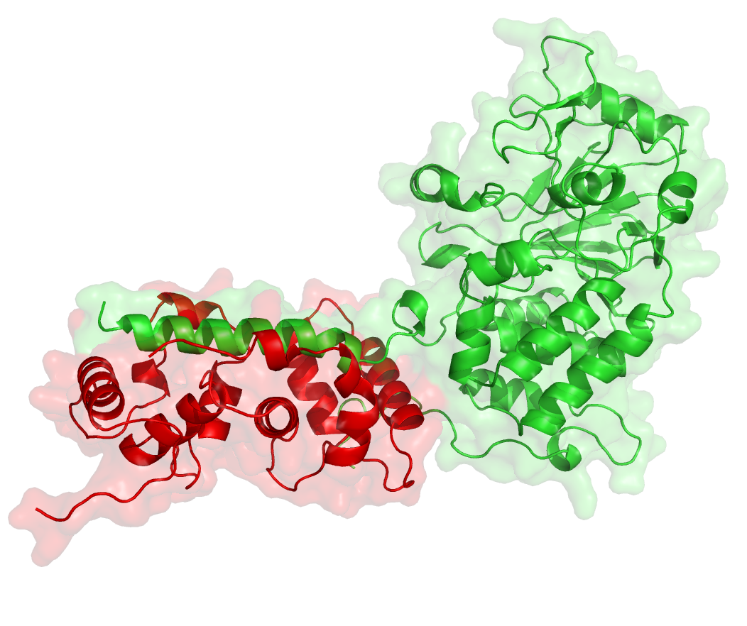 Cartoon representation of the quaternary structure of the protein-phosphatase Calcineurin